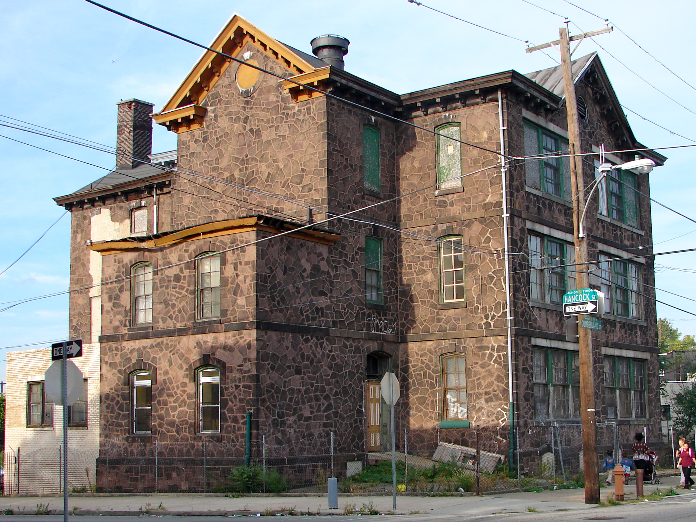 David Farragut School in Philadelphia on the NRHP since December 4, 1986. At 170 W. Cumberland St. in the North Philly neighborhood of West Kensington.